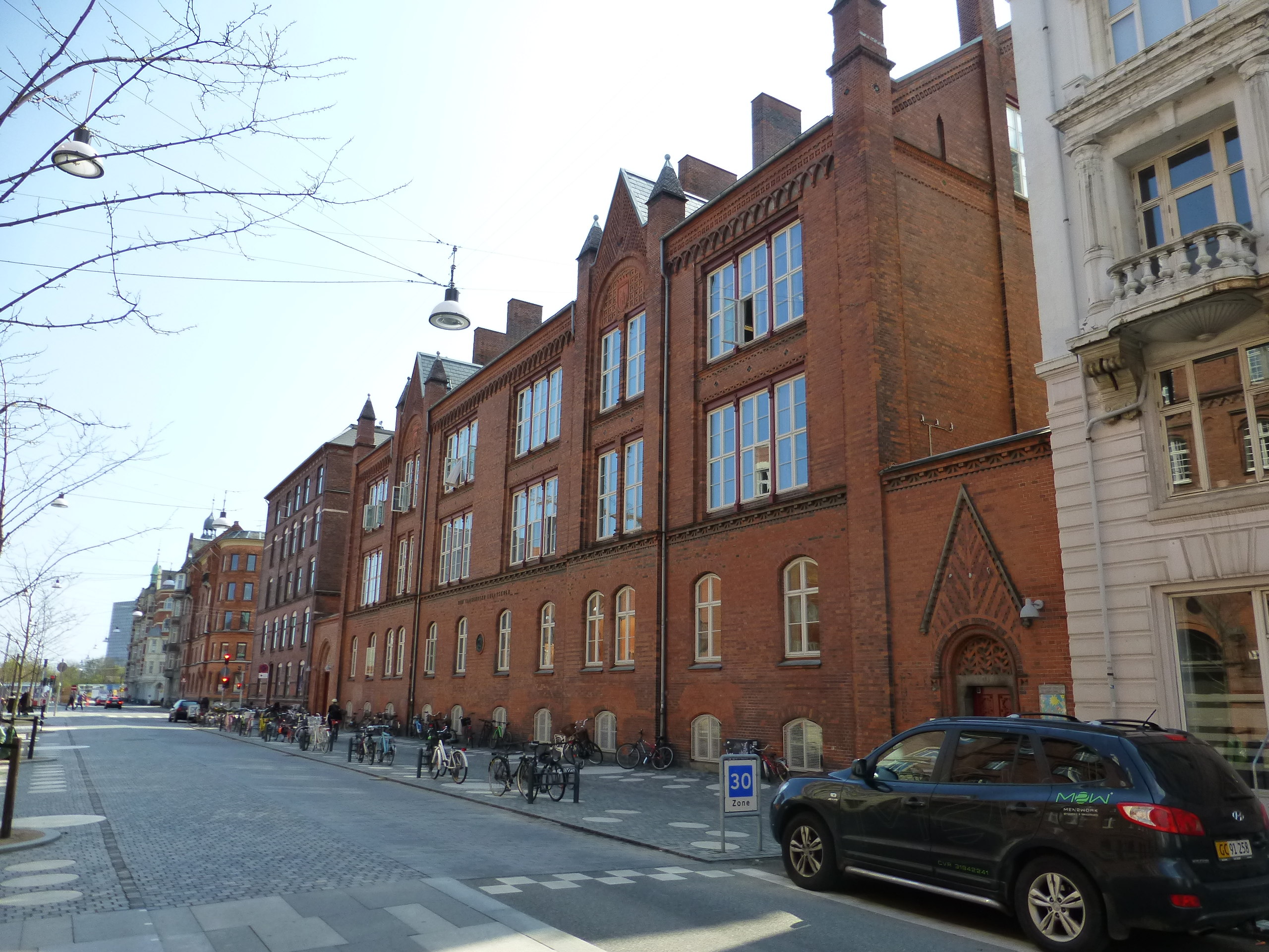 The school Den Classenske legatskole at Vester Voldgade in Copenhagen.